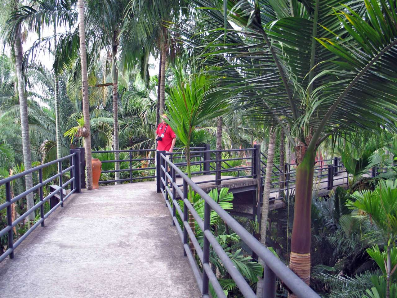 Nong Nooch botanical garden, Skywalk, Thailand